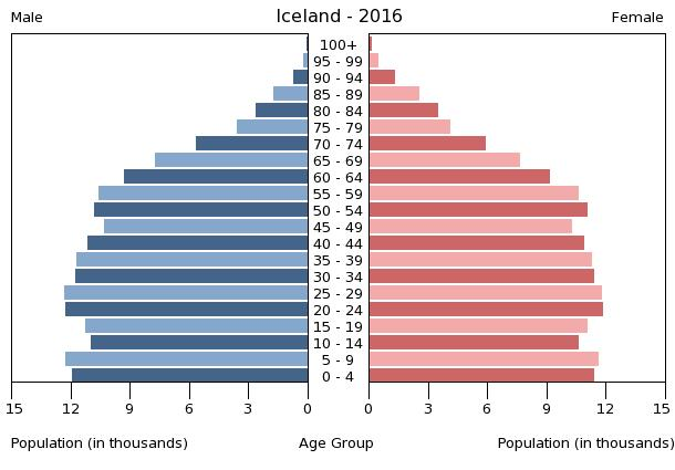 The population pyramid of Iceland illustrates the age and sex structure of population and may provide insights about political and social stability, as well as economic development. The population is distributed along the horizontal axis, with males shown on the left and females on the right. The male and female populations are broken down into 5-year age groups represented as horizontal bars along the vertical axis, with the youngest age groups at the bottom and the oldest at the top. The shape of the population pyramid gradually evolves over time based on fertility, mortality, and international migration trends.